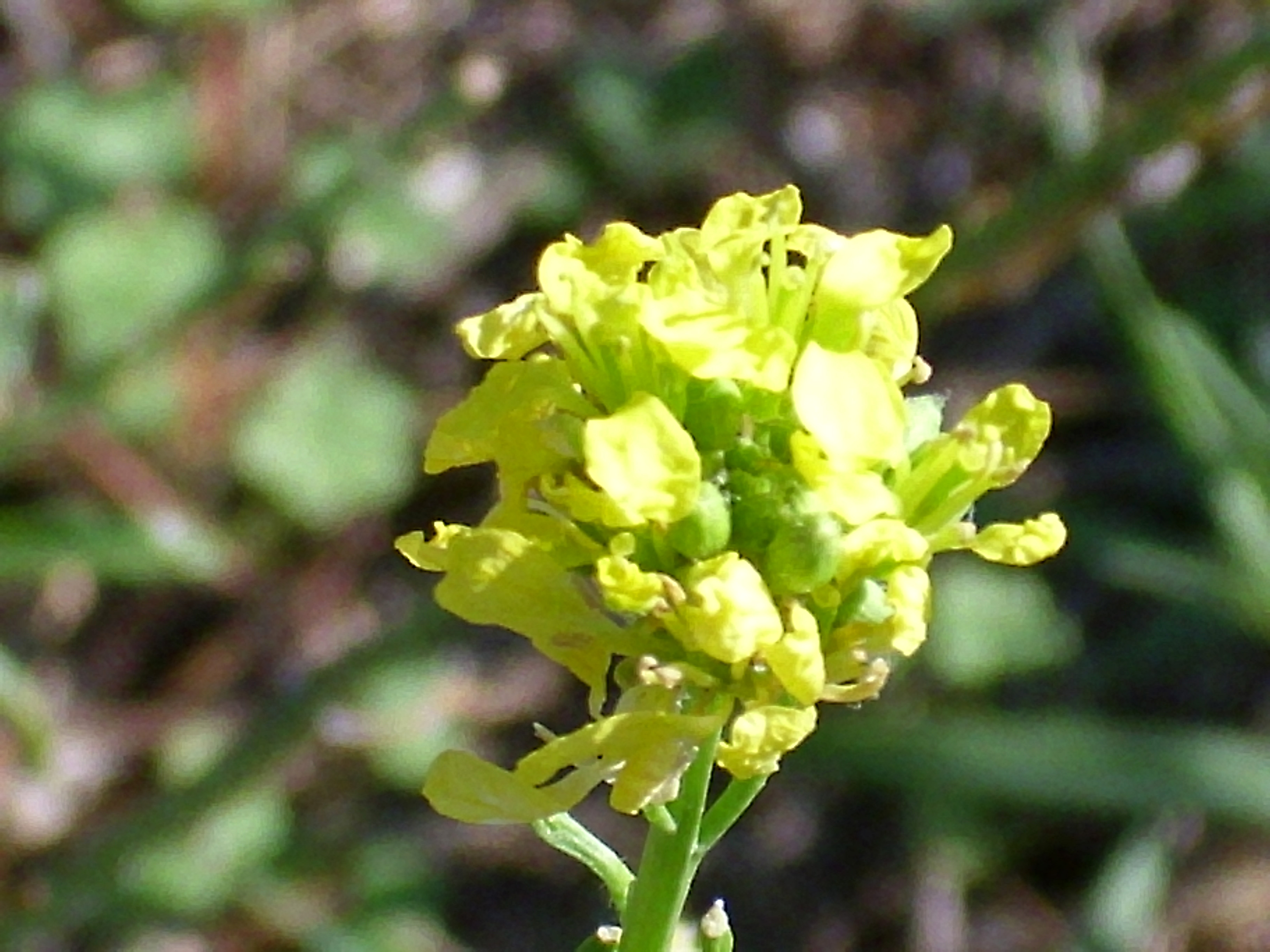 Hirschfeldia incana flowers close up, Dehesa Boyal de Puertollano, Spain